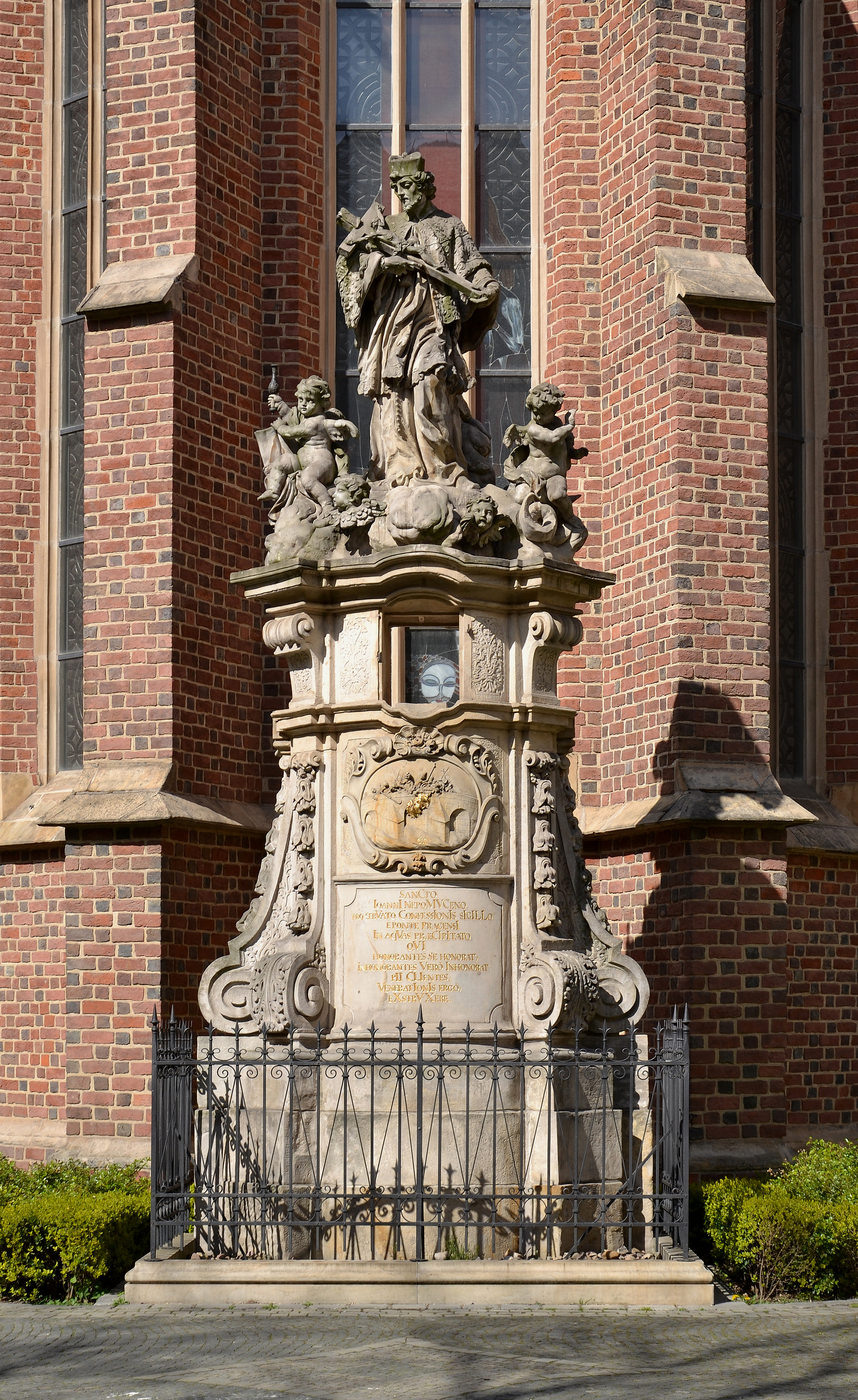 Johann Georg Urbansky: Statue of John of Nepomuk, 1723, Saint Matthew church in Wrocław (Breslau), Silesia